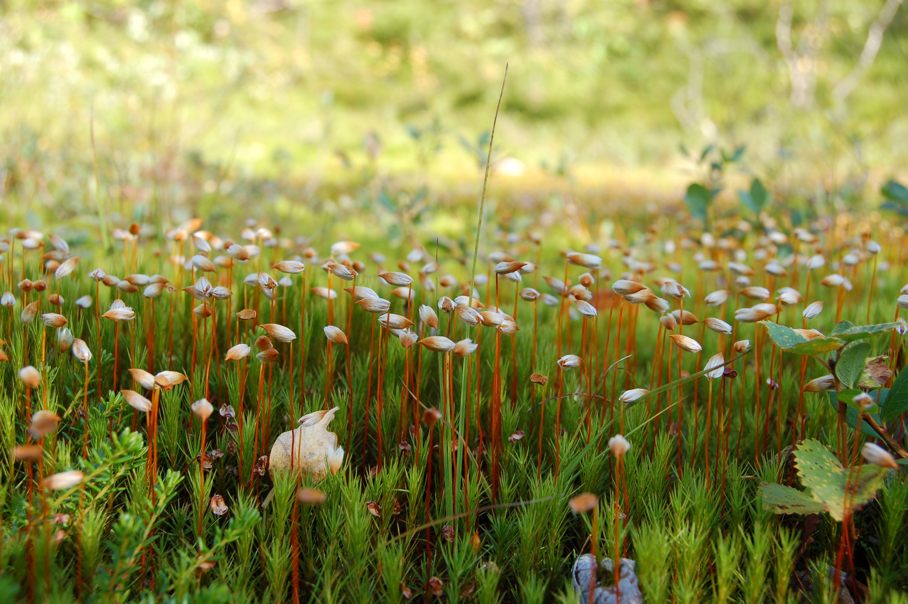 Haircap moss or Hair moss